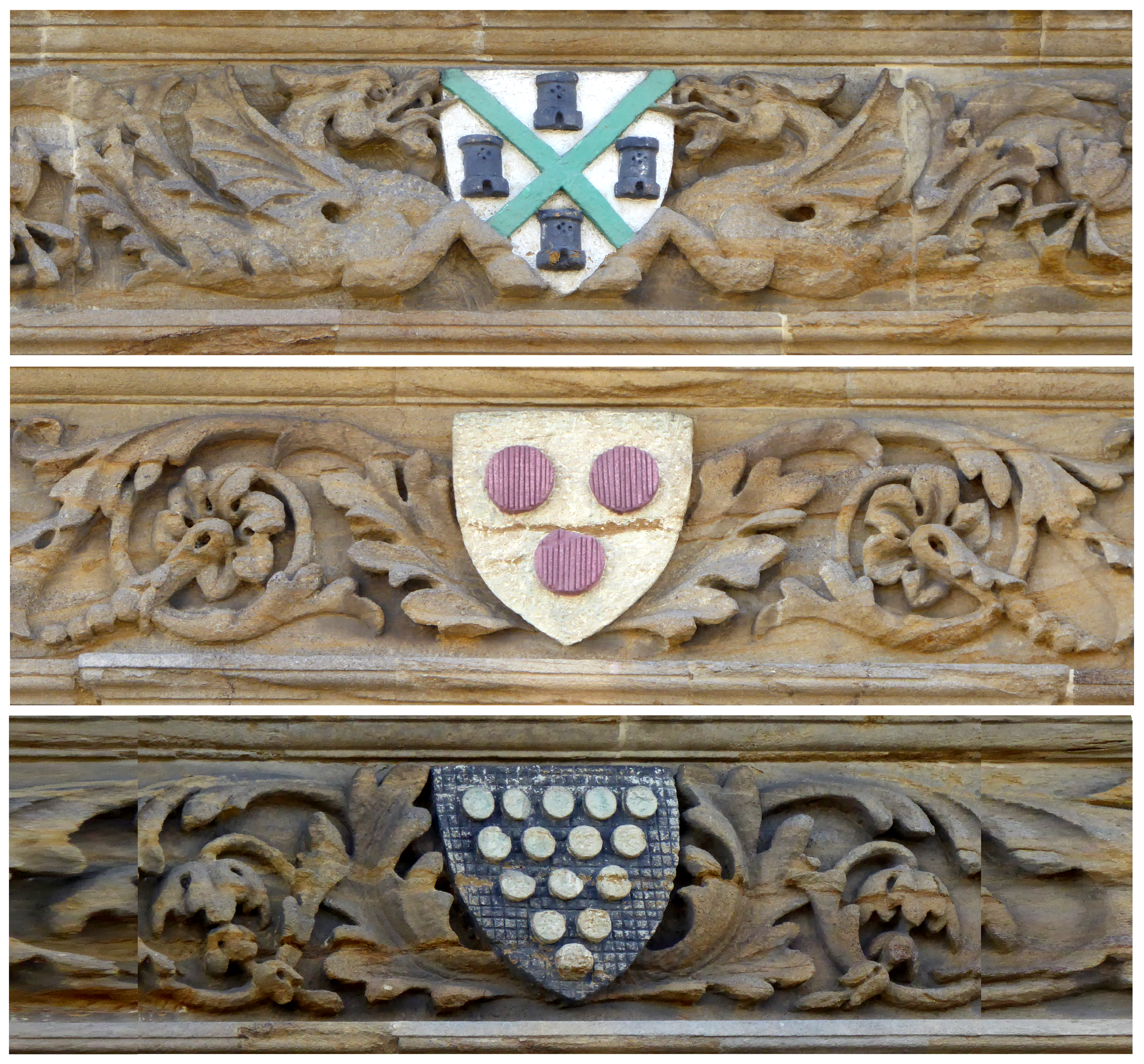 Devon & Cornwall Bank building, South Molton, Devon. The bank was established in 1832 at Plymouth, and developed a wide branch network across the south-west. It was acquired in 1906 by Lloyds Bank, which was in need of a branch network in the south-west, and remains a branch-office of Lloyds in 2017. On the facade are displayed the left to right: arms of Courtenay, Earls of Devon; the arms of the Corporation of Plymouth; the Duchy of Cornwall; sculpted text above: "Established 1832" above which in the pediment are shown the arms of the Borough of South Molton. Behind the modern signage of "Lloyds Bank" is visible the vestige of the former signage "Devon & Cornwall Bank".